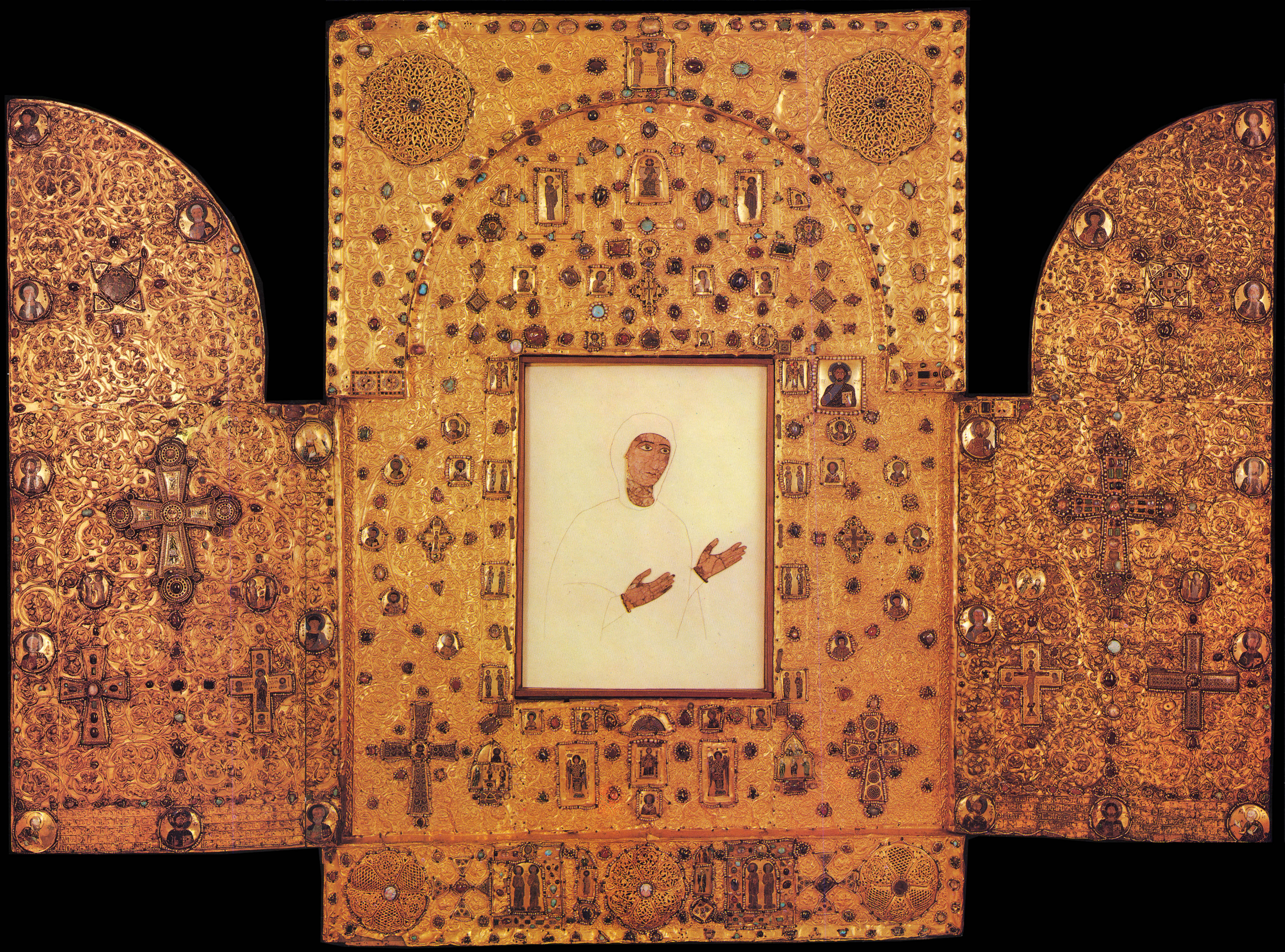 The Golden Triptych of Virgin Mary from the Khakhuli Monastery in Georgia. This contains the reconstructed centre panel with only the face and hands of the Virgin Mary. See File:Khakhuli triptikh XIX.jpg.